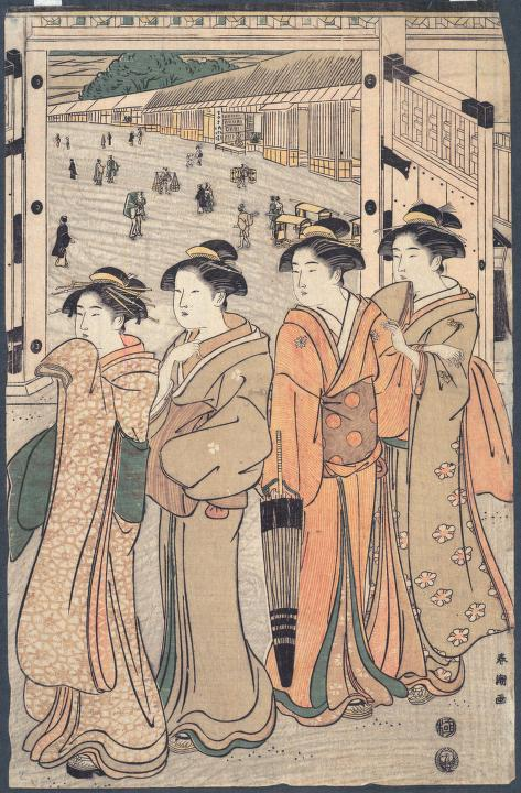 Title: Courtesans in front of the Great Gate (Ōmon) of the Shin-Yoshiwara pleasure district Artist:Katsukawa Shunchō (Japanese, active ca. 1783-1821) Donor: Gift of Gillett G. Griffin in honor of Dale Roylance Measurements: 36.7 × 23.8 cm (sheet) Technique: Nishiki-e (color woodblock print)